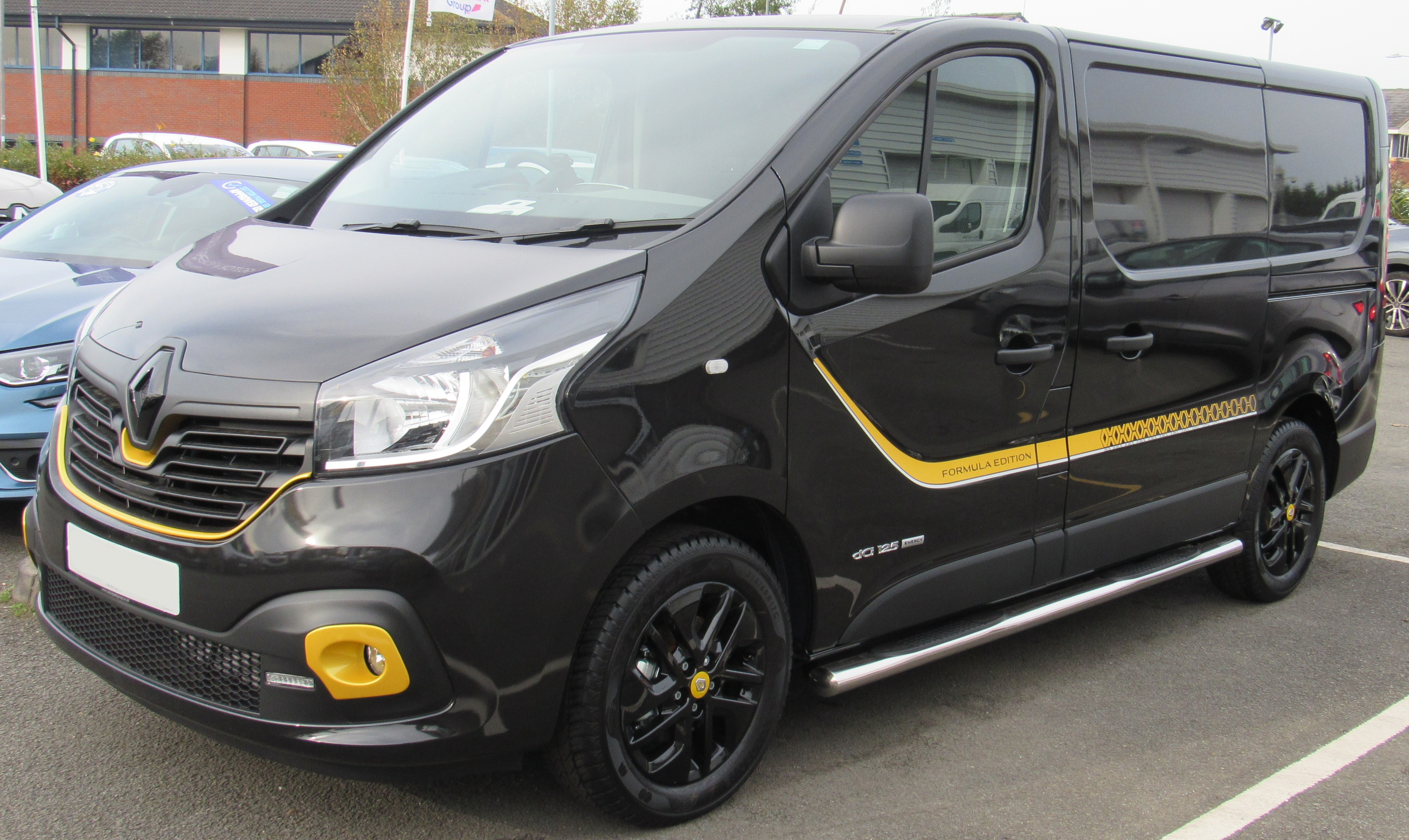 2017 Renault Trafic S127 Energy Formula Edition DCI 1.6 Taken in Leamington Spa